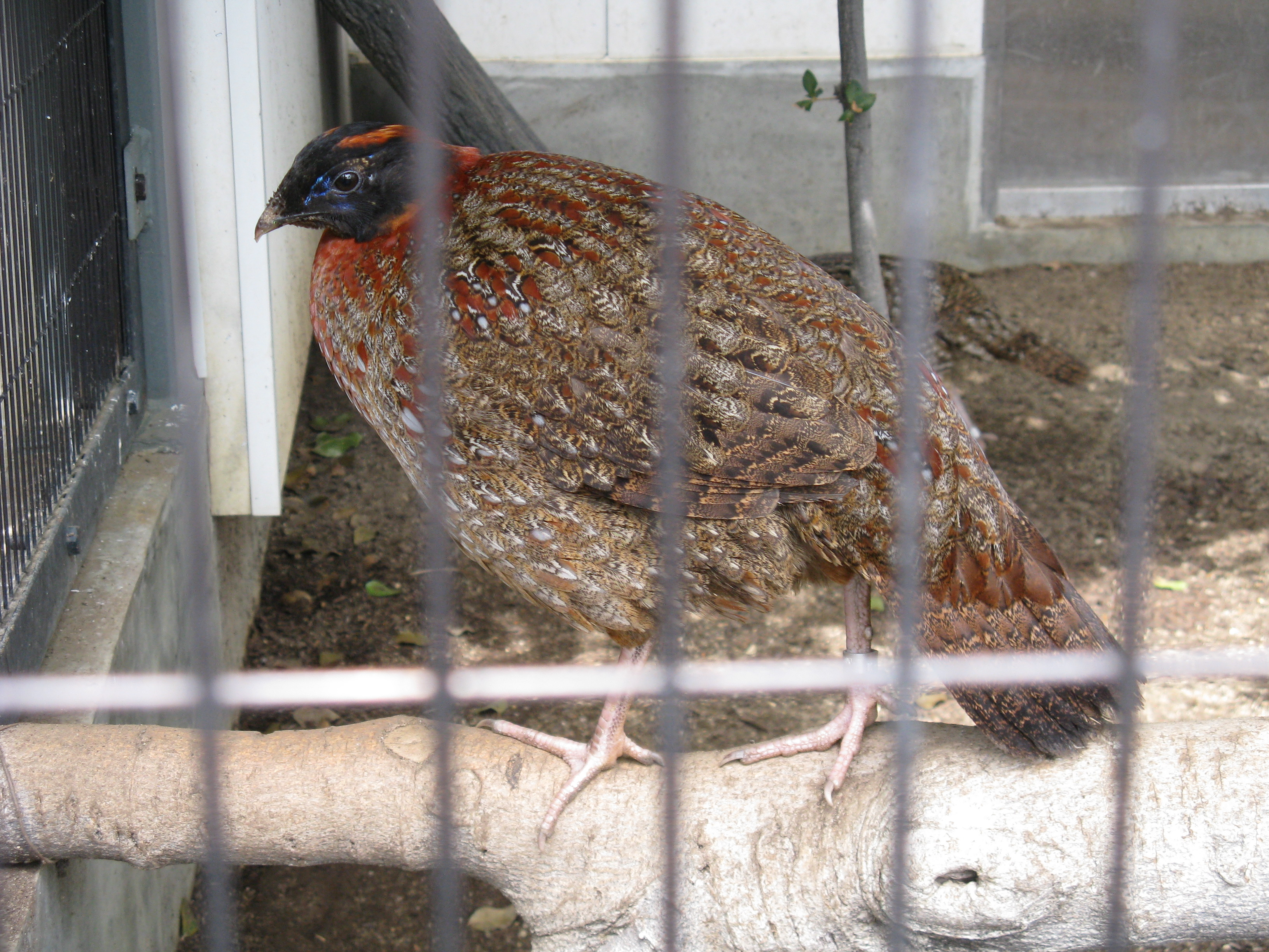 Scientific name Tragopan temminckii